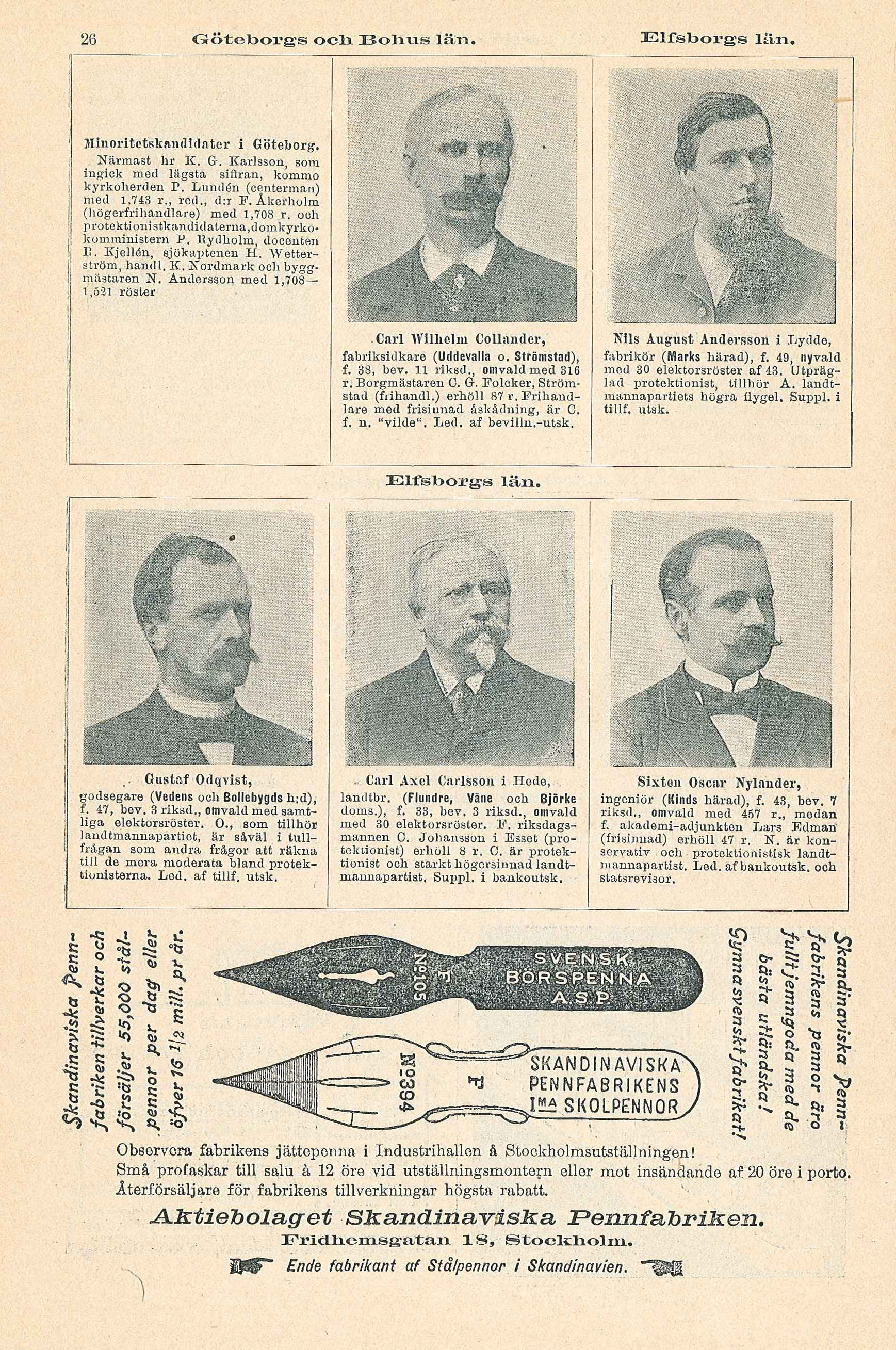 Page 26 of an album featuring portraits of all the members of the second chamber of the Swedish parliament (Sveriges riksdag) elected in 1897. This page featuring parts of the members representing the counties of Göteborg och Bohus and Älvsborg.